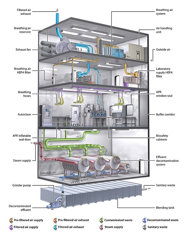 Essential features of a biosafety level 4 (BSL-4) laboratory. Credit: NIAID (an institute of the National Institutes of Health, the United States Department of Health and Human Services).